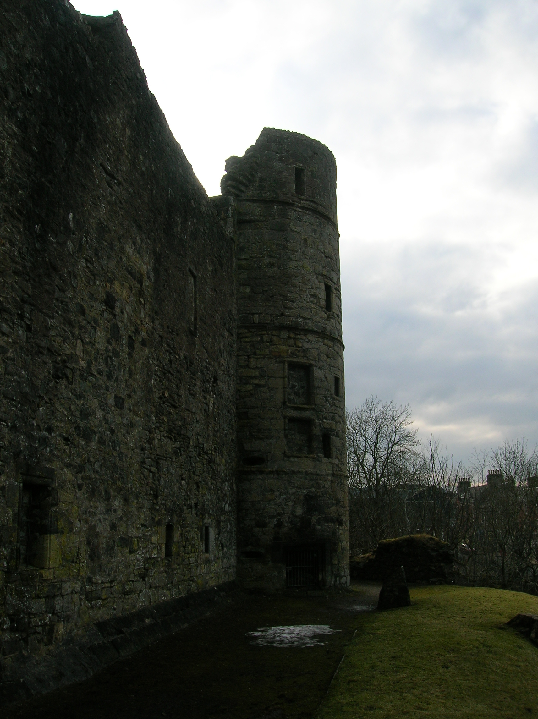 Strathaven Castle as viewed from the town centre. South Lanarkshire.